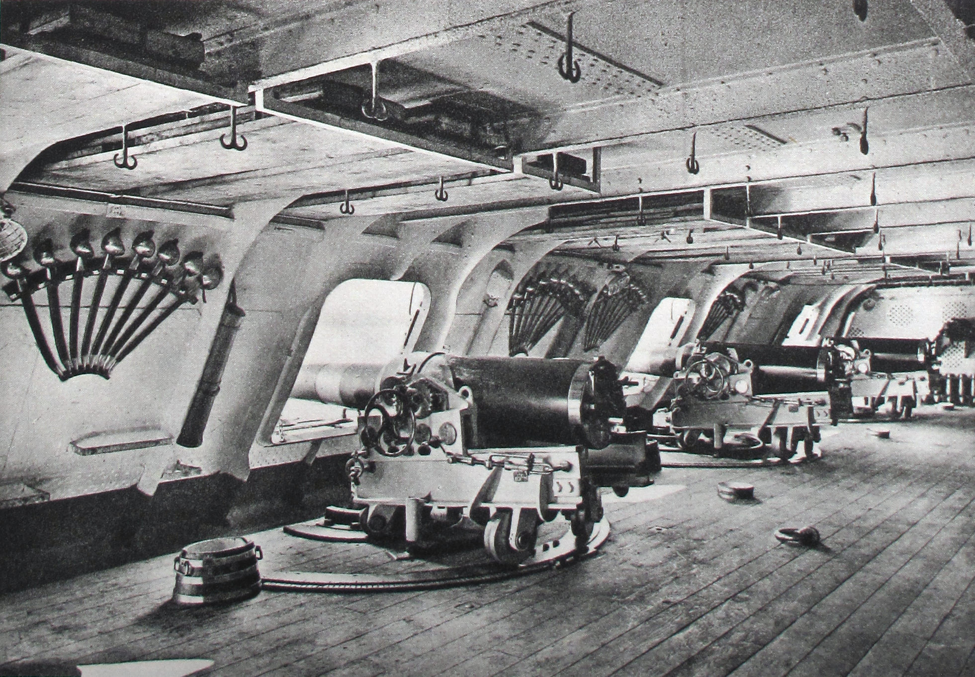 14cm gun in the battery of an ironclad